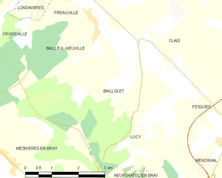 Map of French municipality Baillolet